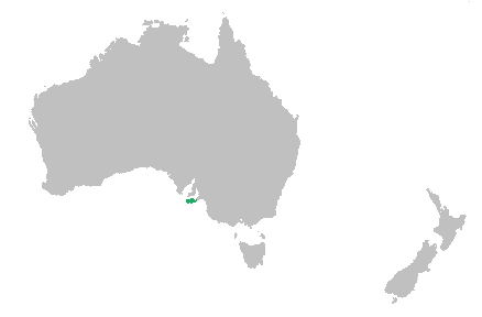 Based on description given and AustraliaNZ-blank.